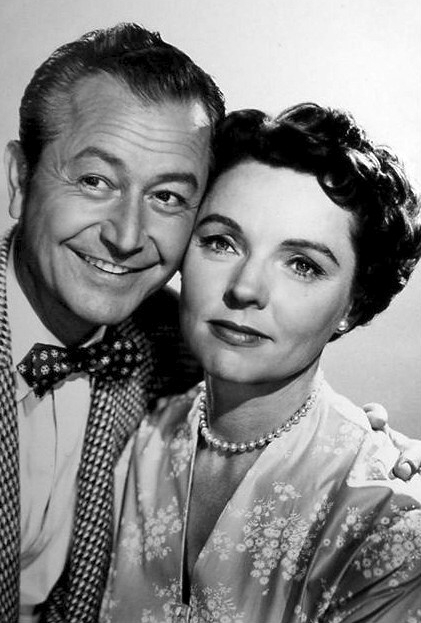 Publicity photo of Jane Wyatt and Robert Young from the television show Marcus Welby, M.D.. Note that ABC had issued a "double photo" with Wyatt and Young shown in a 1950s photo from Father Knows Best as well as a photo from Marcus Welby, M.D..